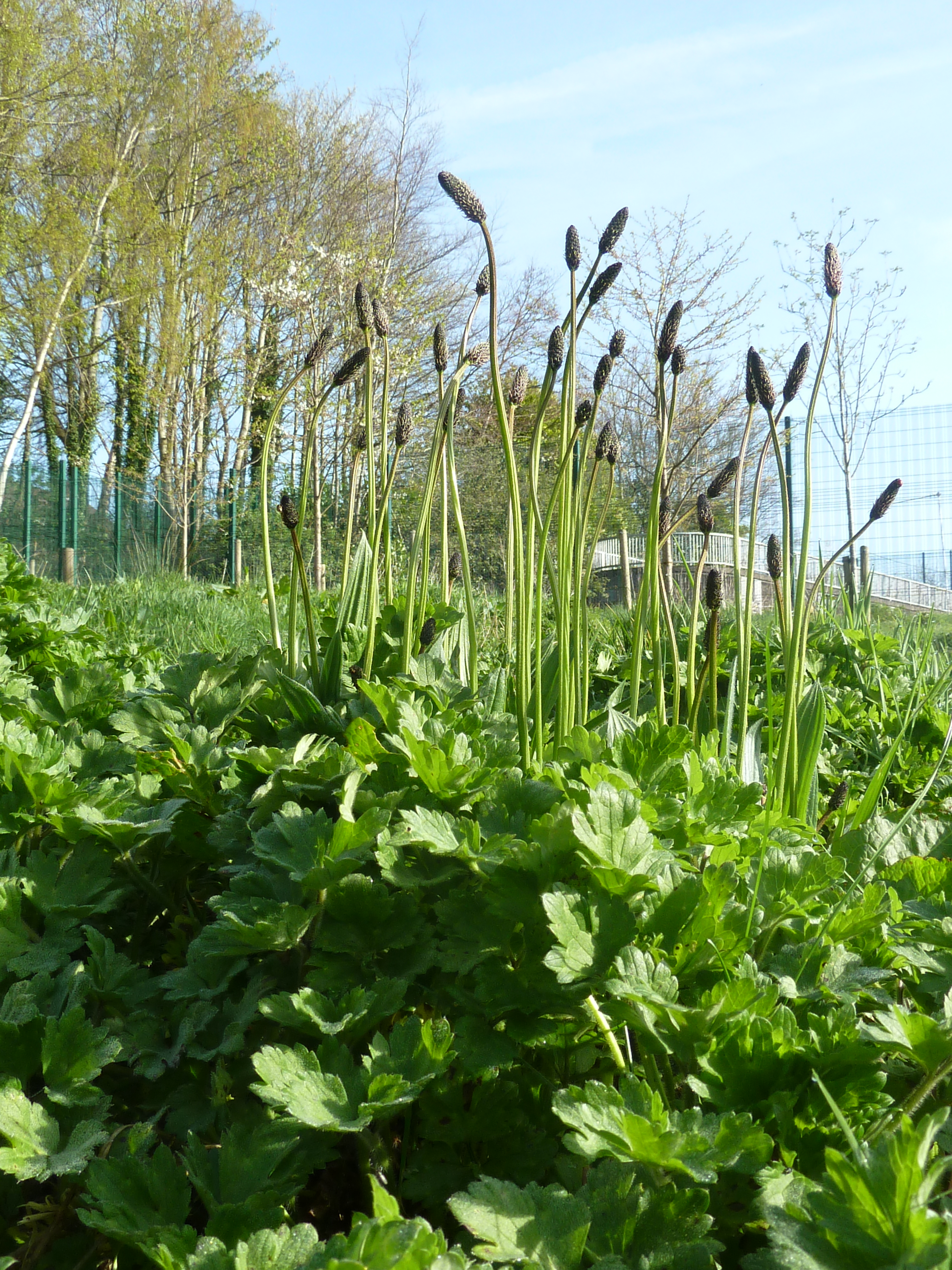 Lisburn, Co.Antrim, Ireland mid April 2014